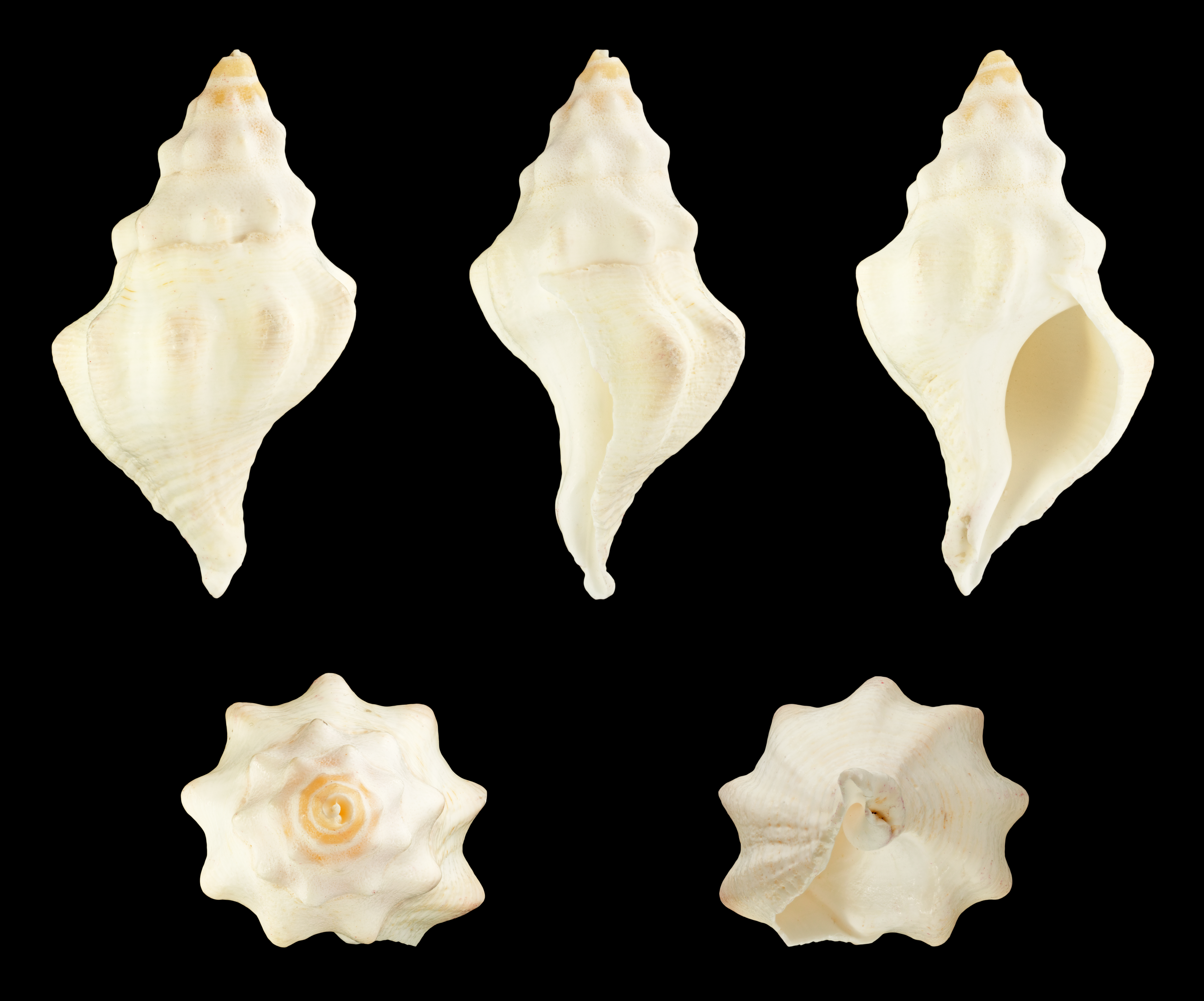 Kelletia kelletii (Forbes, 1850), Kellet's Whelk; Length 9.2 cm; Originating from the Pacific coast of Mexico. Shell of own collection, therefore not geocoded.